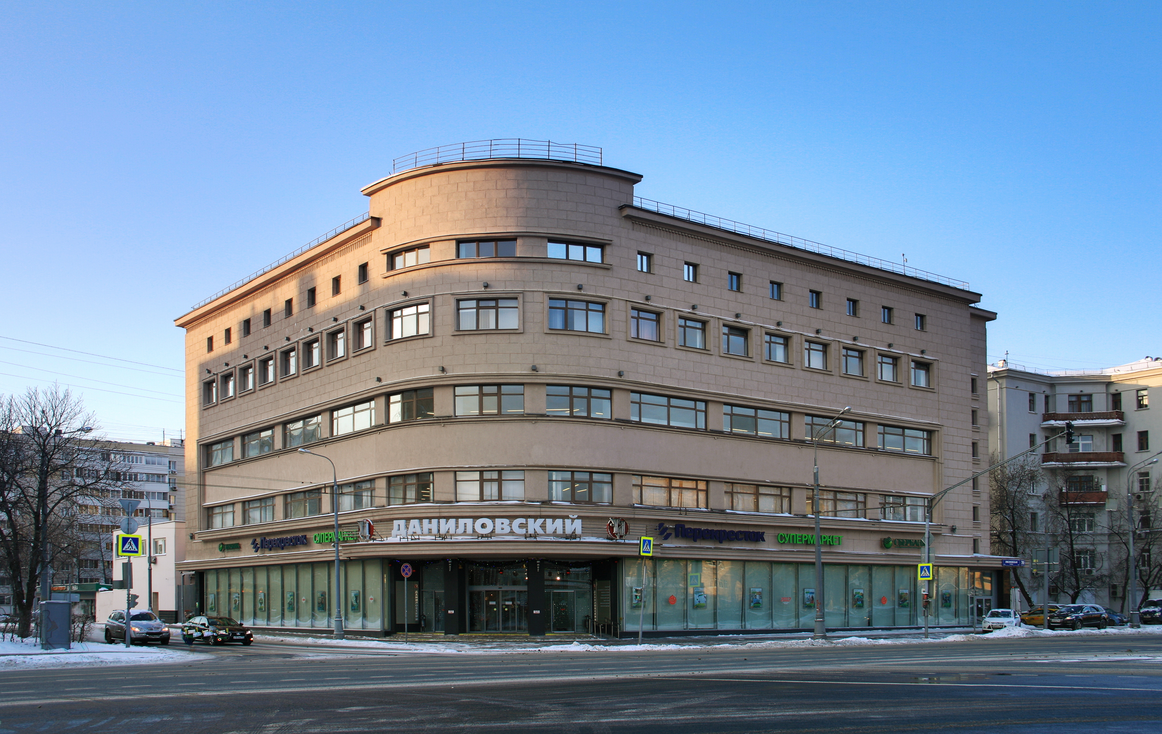 Lyusinovskaya Street 70 str 1, Moscow, Russia